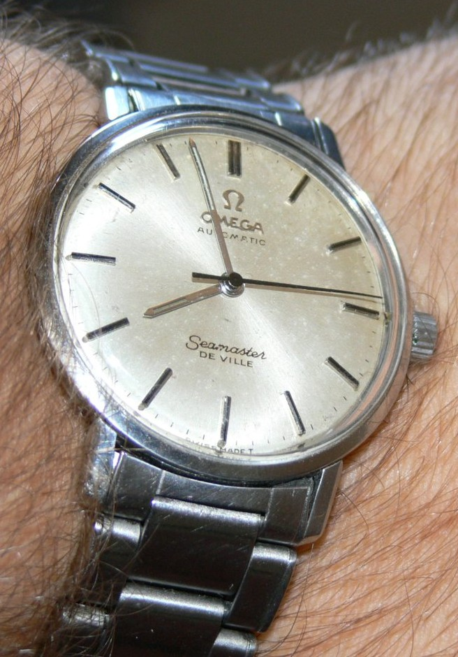 My own Omega Seamaster DeVille, circa 1965.